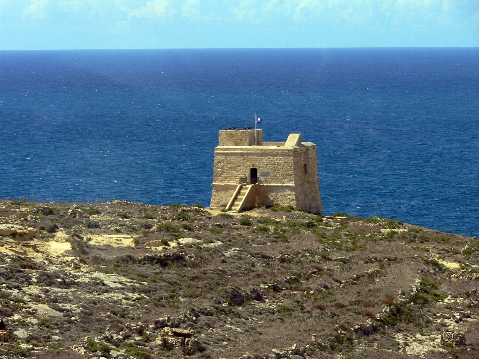 Grandmaster Lascaris' tower at Dwejra This media is about Maltese cultural property with inventory number 40.